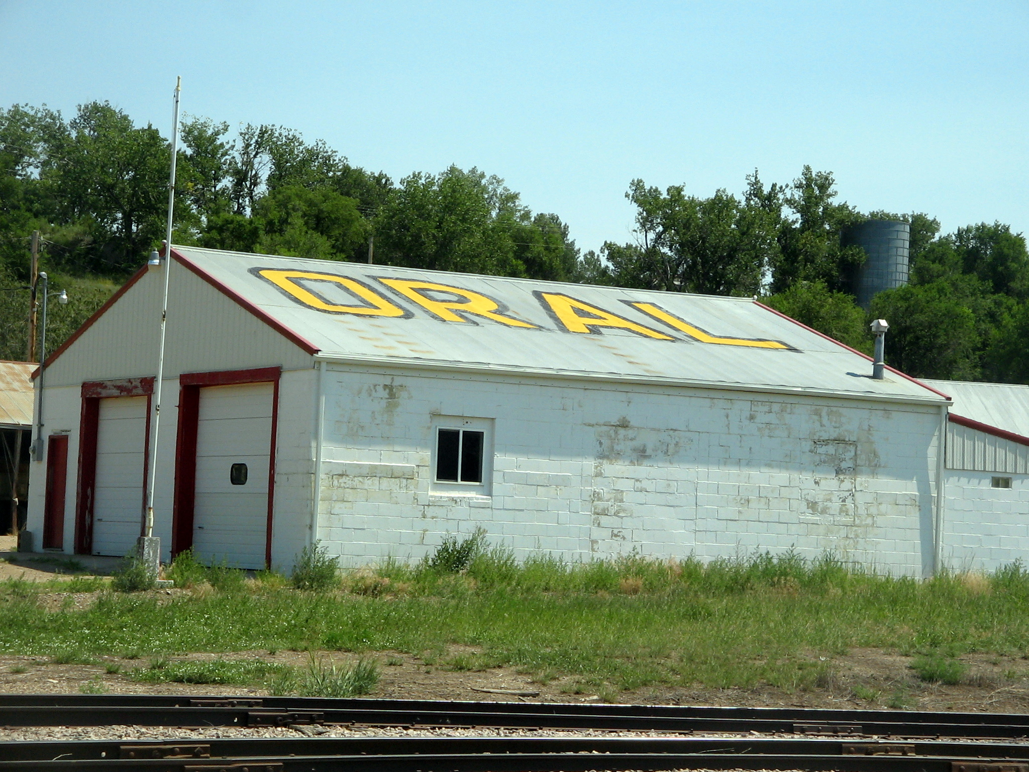 My own photo.